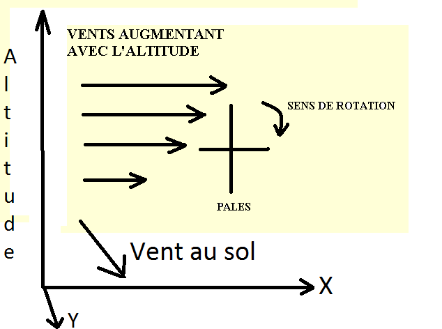 Rotation generated by unidirectional wind shear at altitude but with perpenducular winds at surface